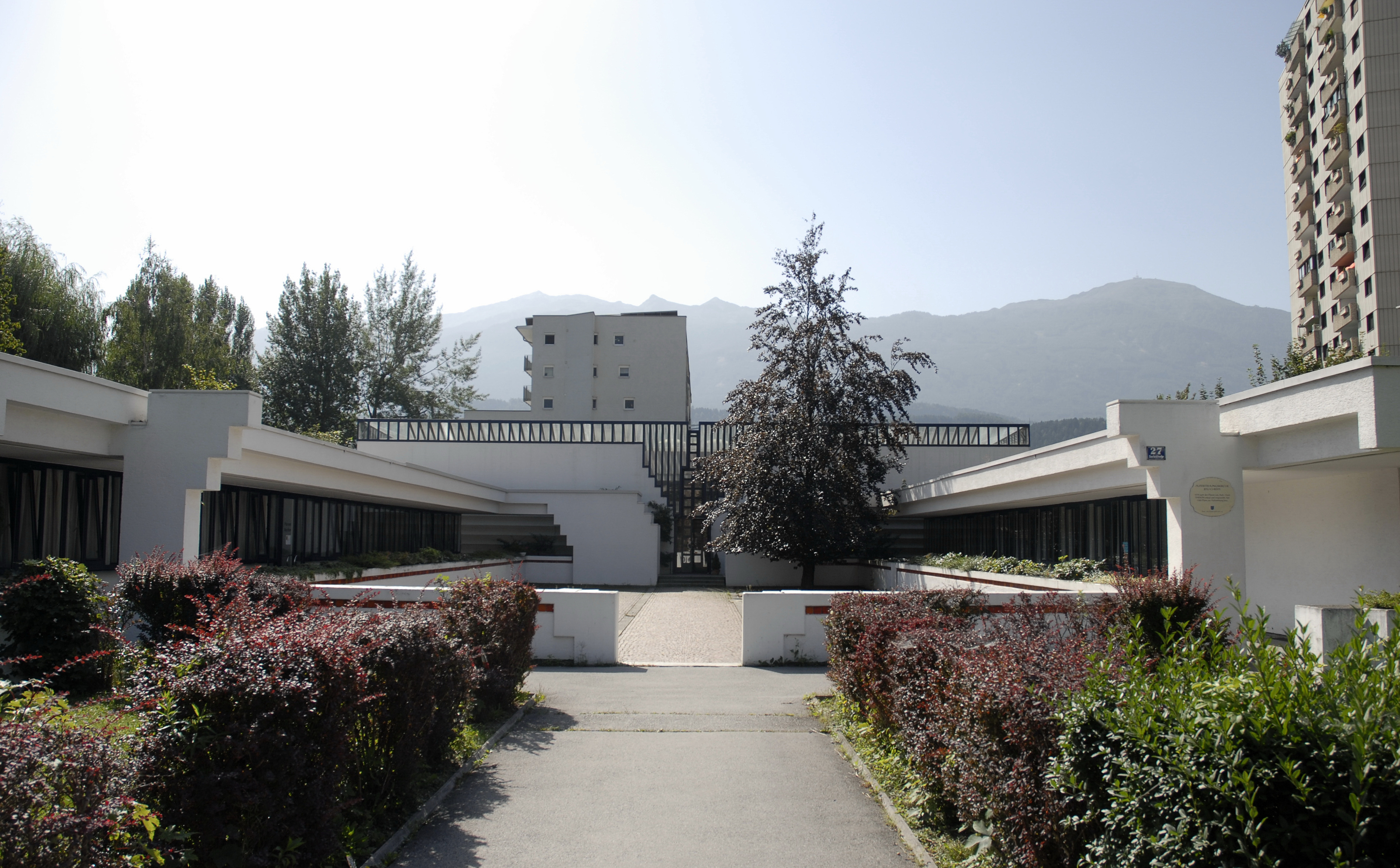 Kirche und Pfarrzentrum Neu-Rum This media shows the remarkable cultural object in the Austrian state of Tyrol listed by the Tyrolean Art Cadastre with the ID 35842. (on tirisMaps, pdf, more images on Commons, Wikidata)